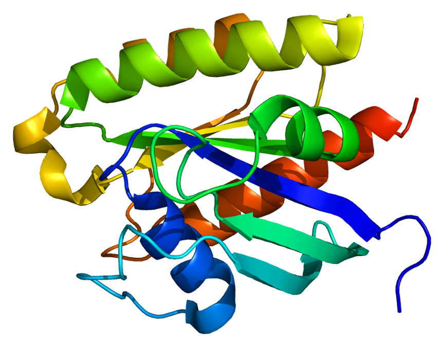 Structure of the RRAS protein. Based on PyMOL rendering of PDB 2fn4.